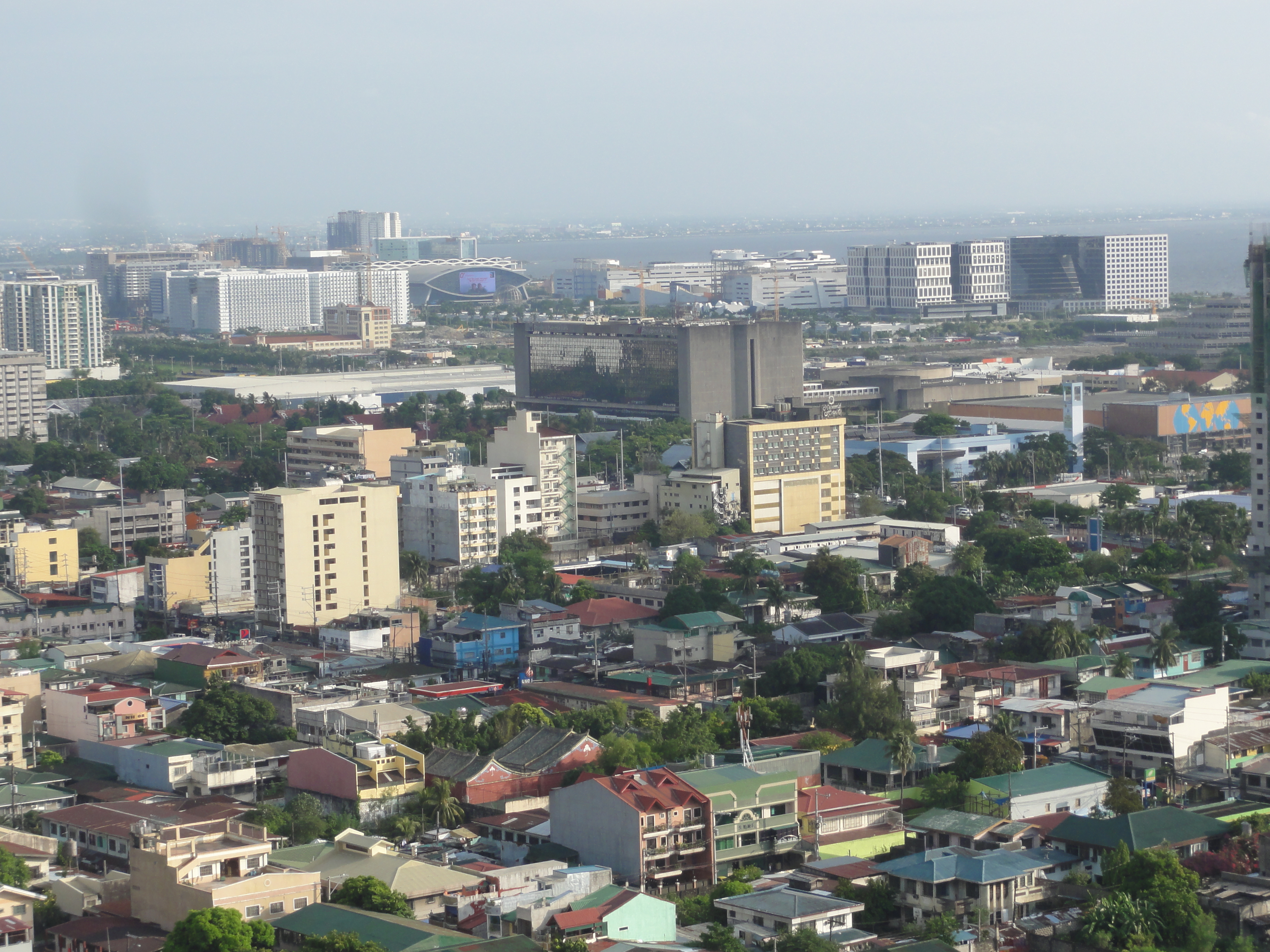 Skyline of Pasay City (with Bay City reclamation area) as seen from Vito Cruz, Malate, Manila as of June 2015.